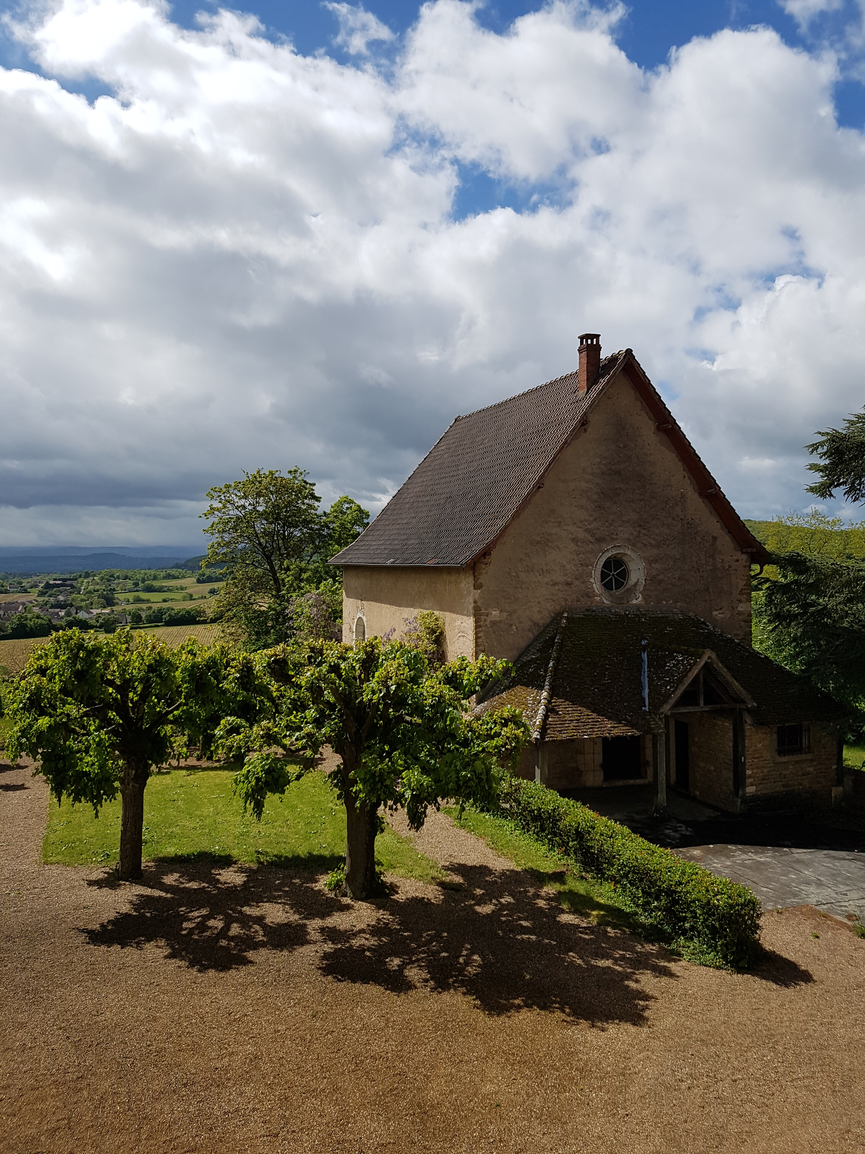 the chappel of the Château du Thil seen from the main house